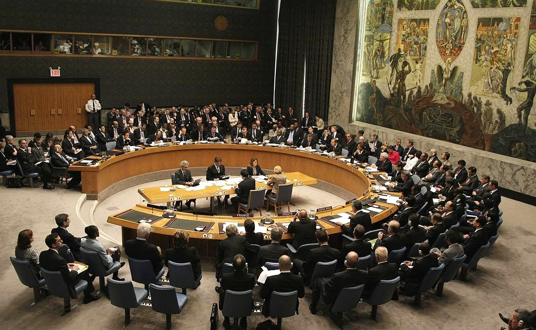 NEW YORK. At summit of UN Security Council members.